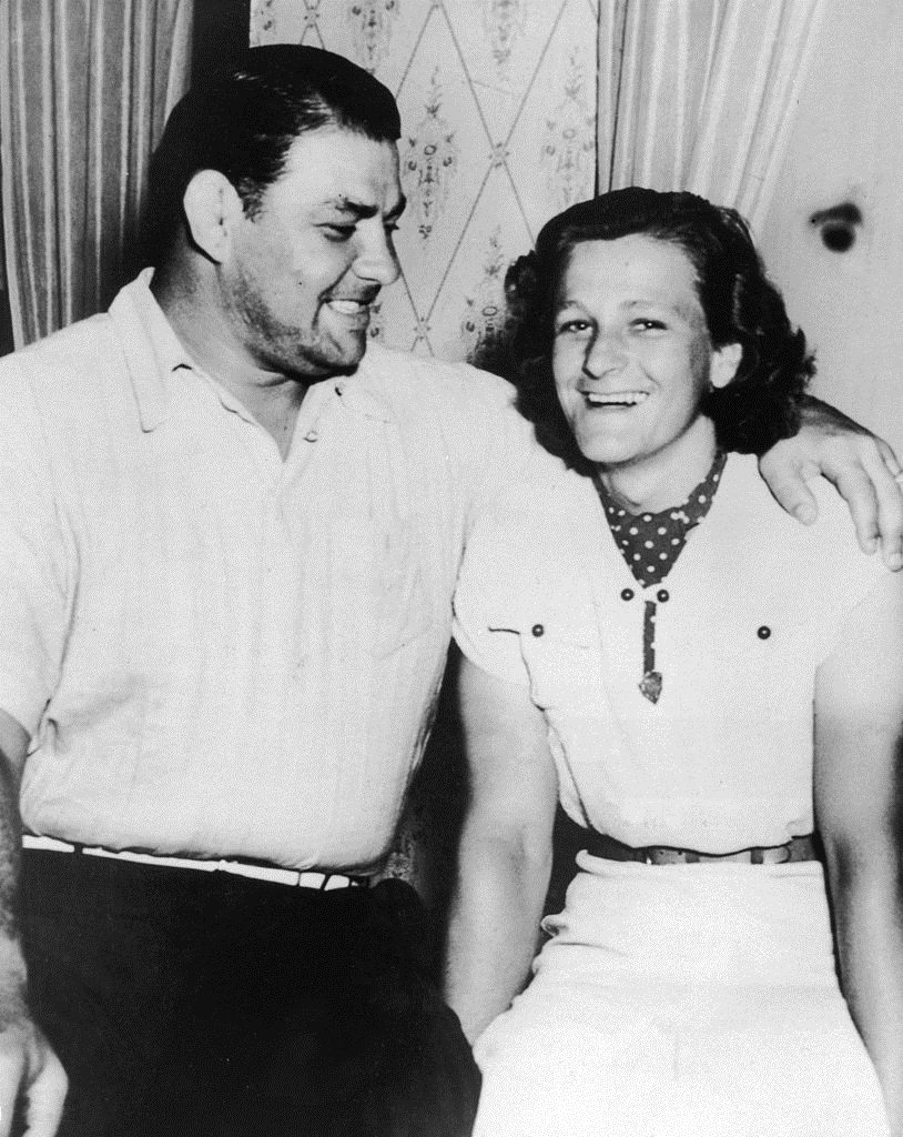 1938 Press Photo George Zaharias, Wrestler of Colo. and bride Mildred Didrikson